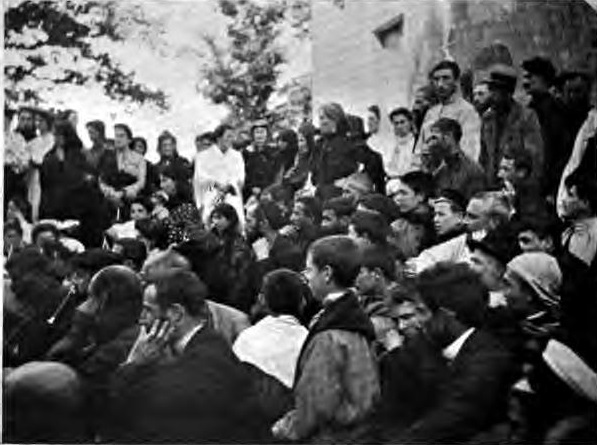 A popular tribunal in Ozurgeti, Georgia, in 1905